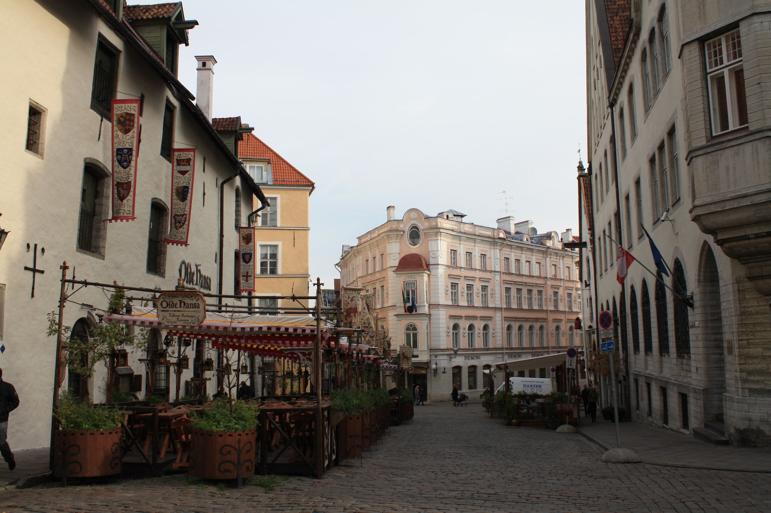 Vana turg